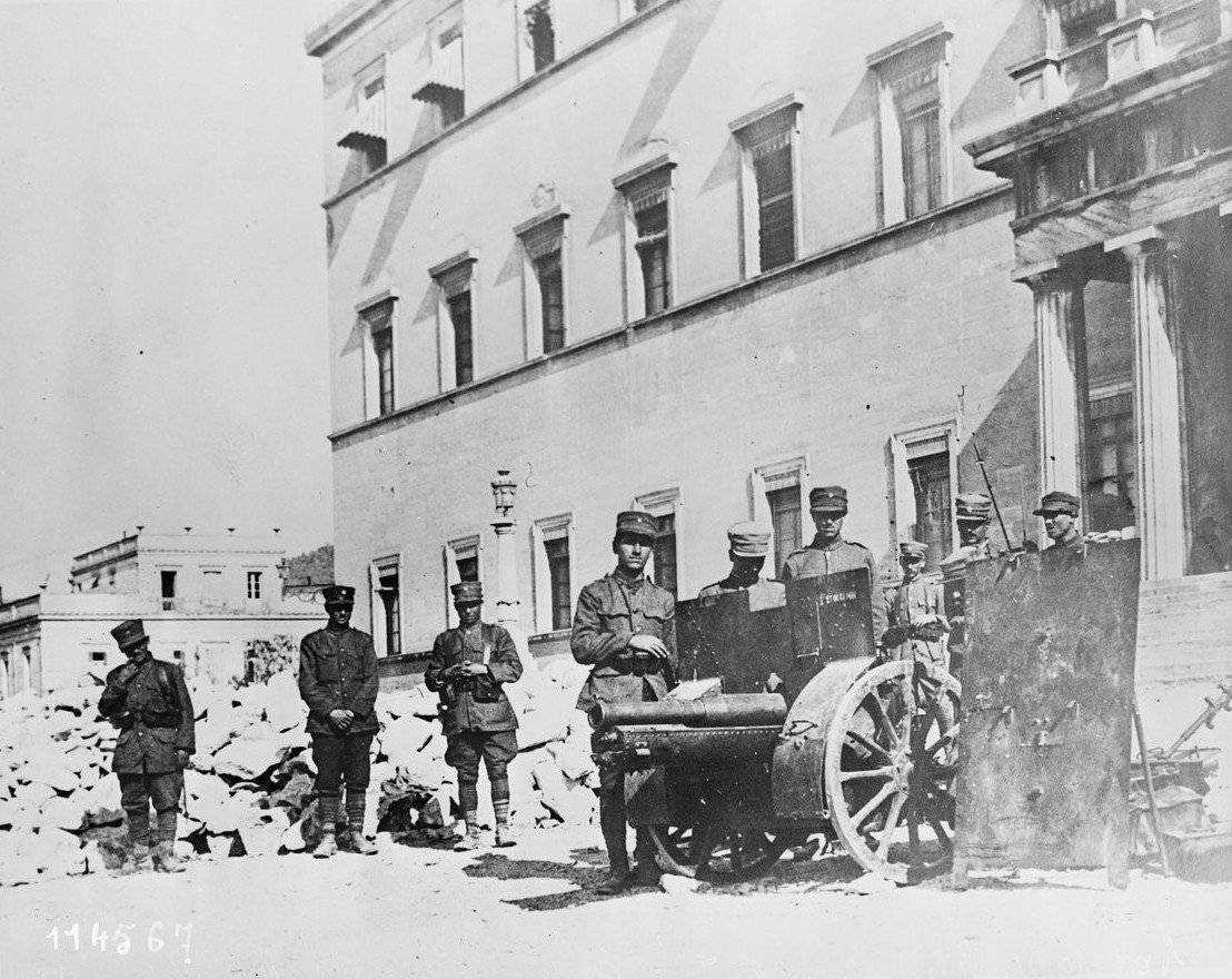 Greek artillery guarding the Old Royal Palace before the November 1926 elections in Athens